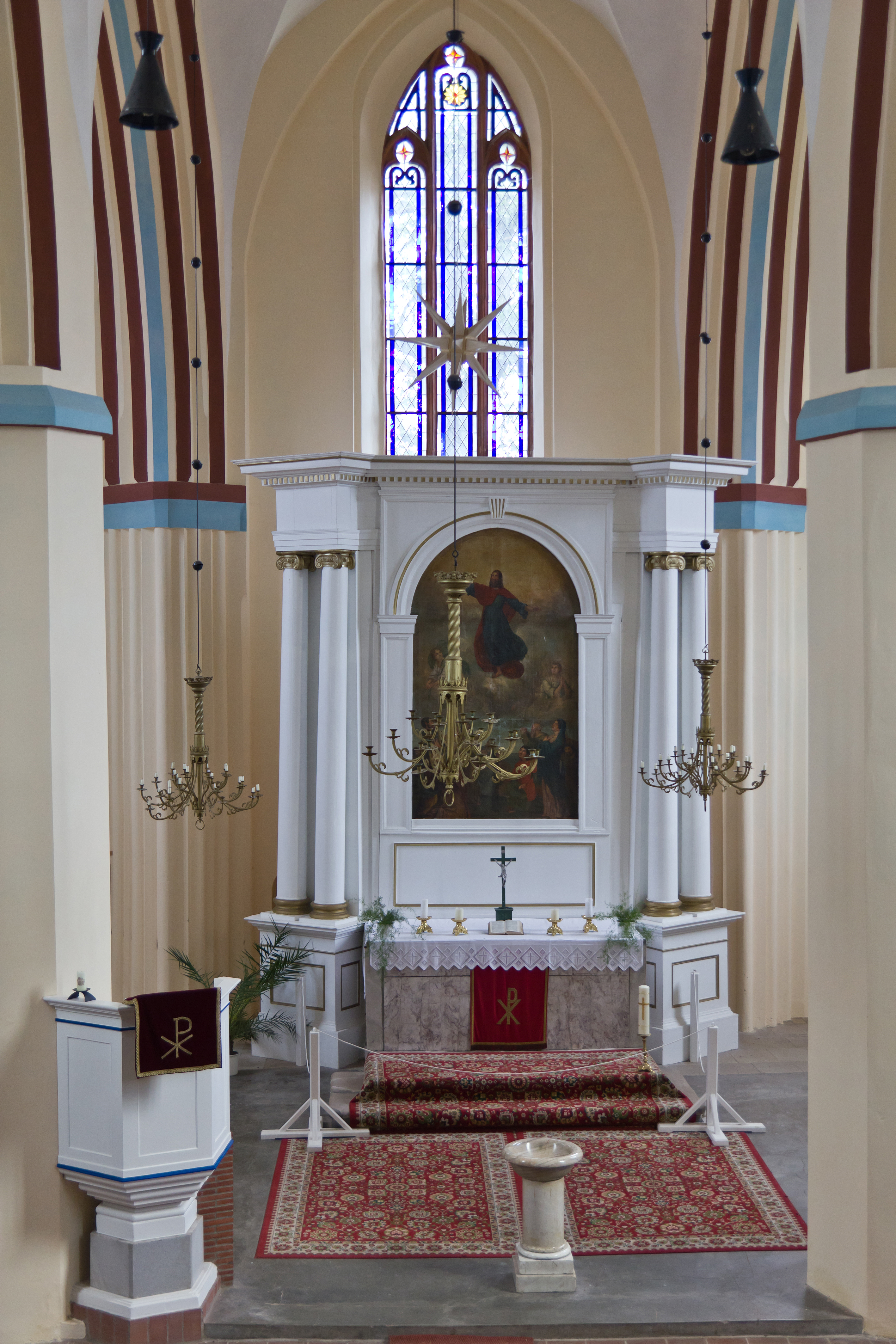 Freyenstein (Wittstock), Brandenburg, Germany. Interior of the Parish Church.